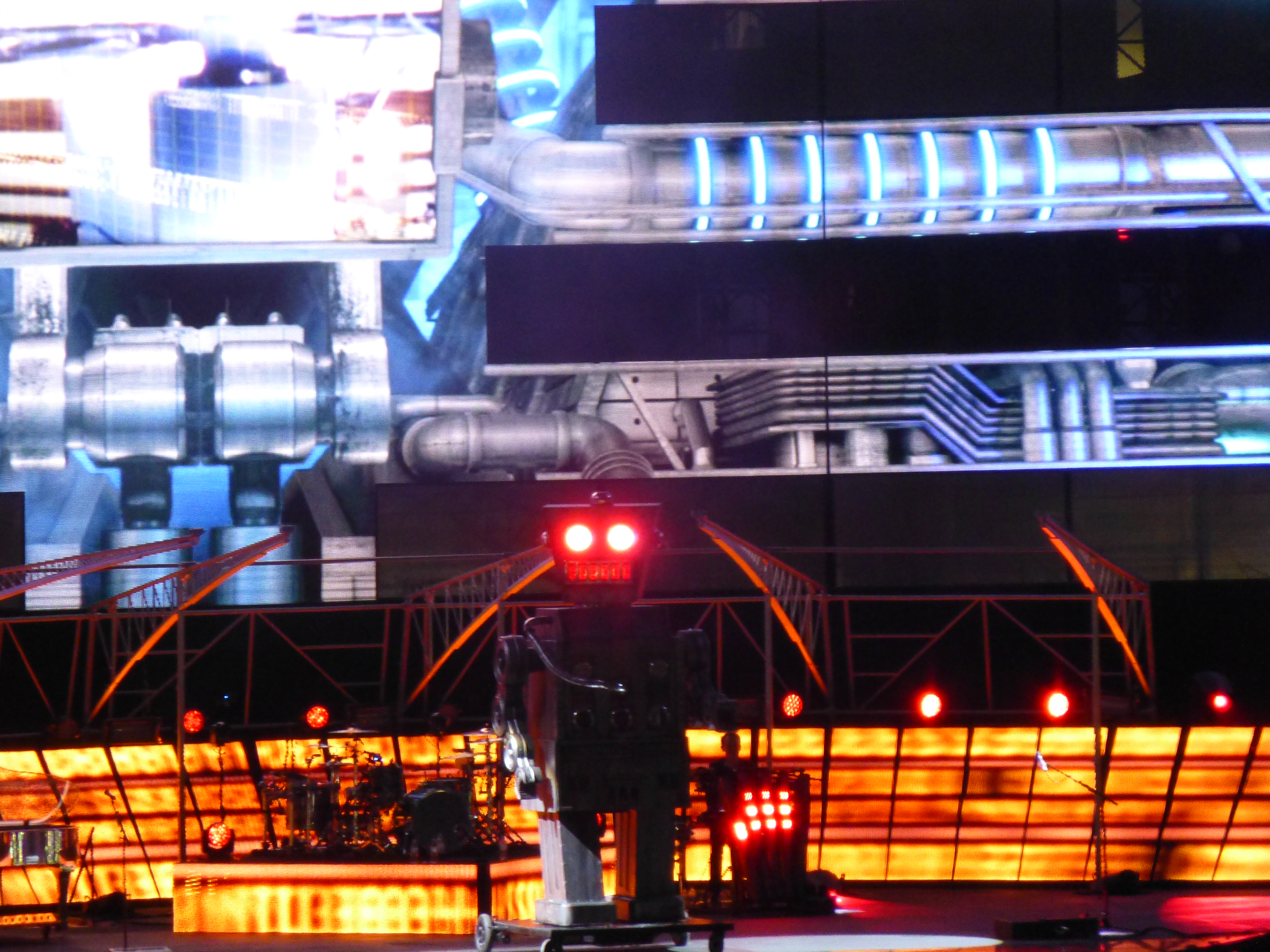 Charles during the song The 2nd Law: Unsustainable.